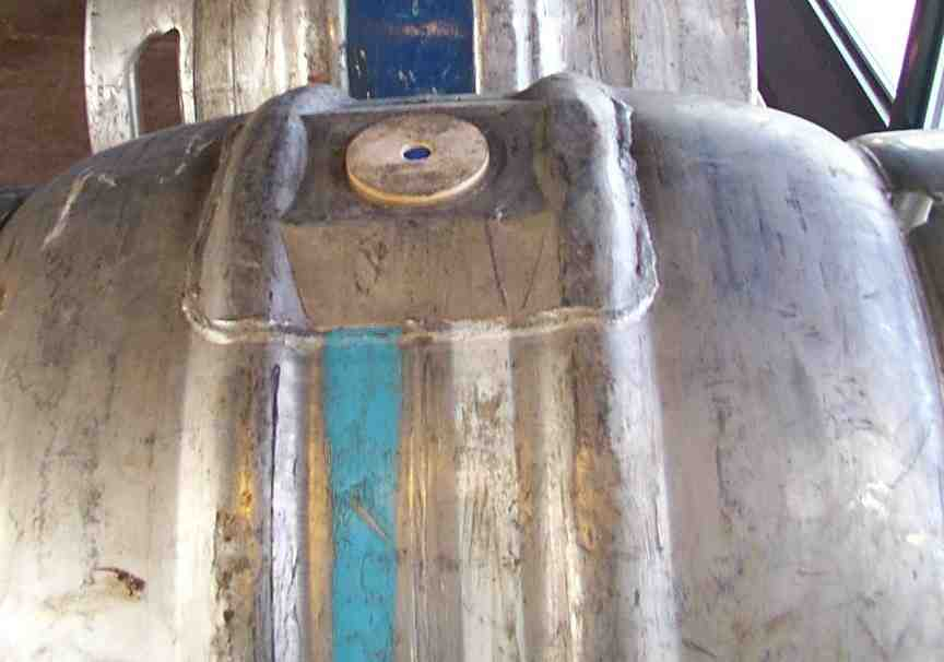 The top of a real ale cask, showing the shive. Taken by me (Pete Verdon) at the 2002 Warwick University real ale festival and hereby released into the public domain.